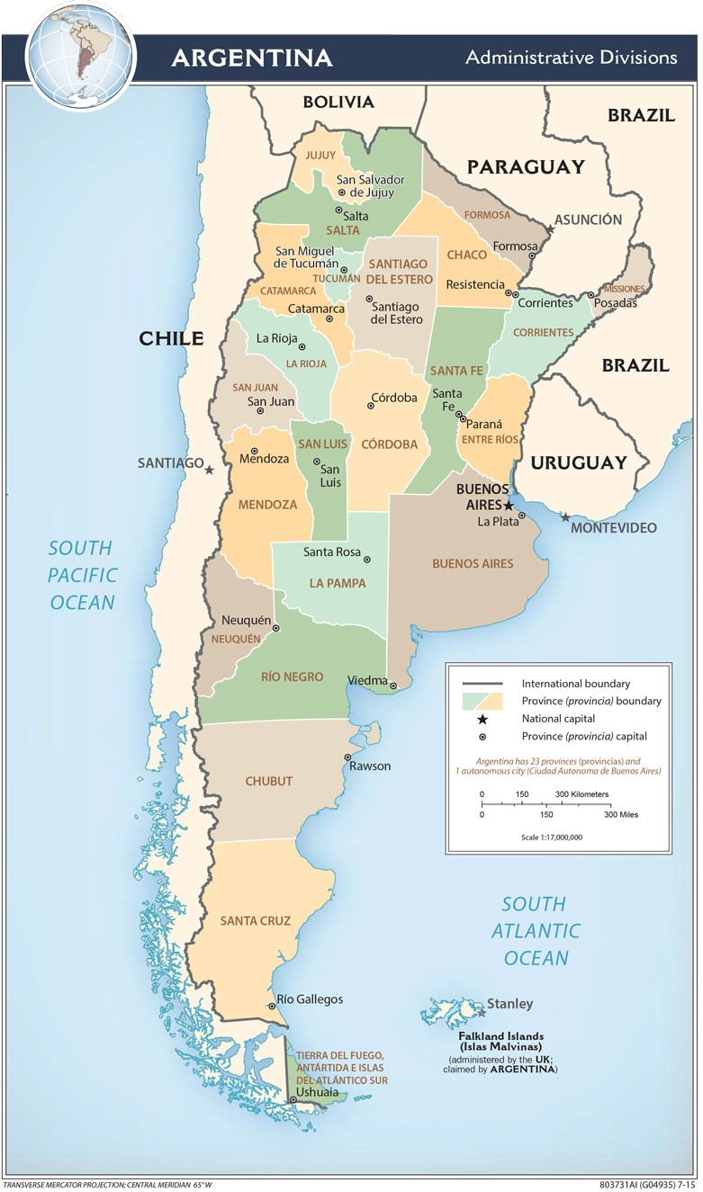 CIA World Factbook map of Argentina.